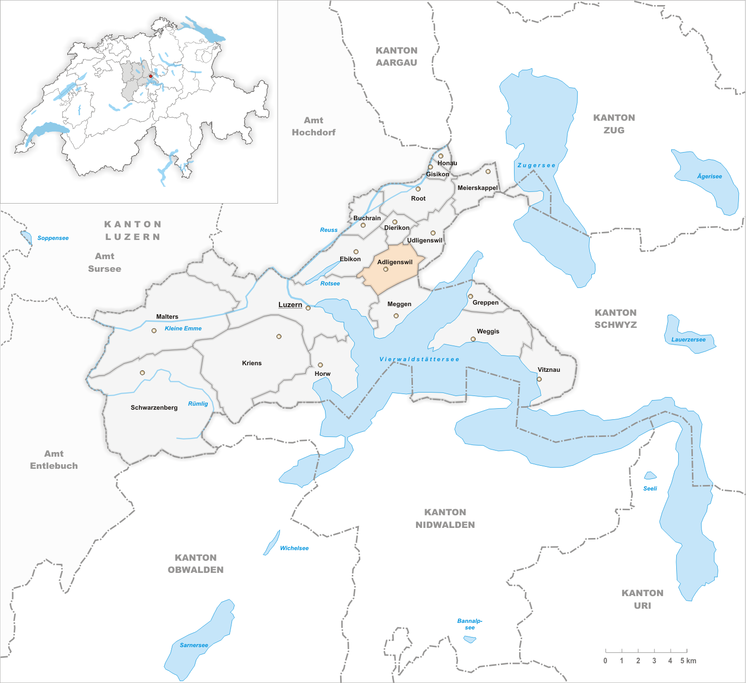 Municipality Adligenswil